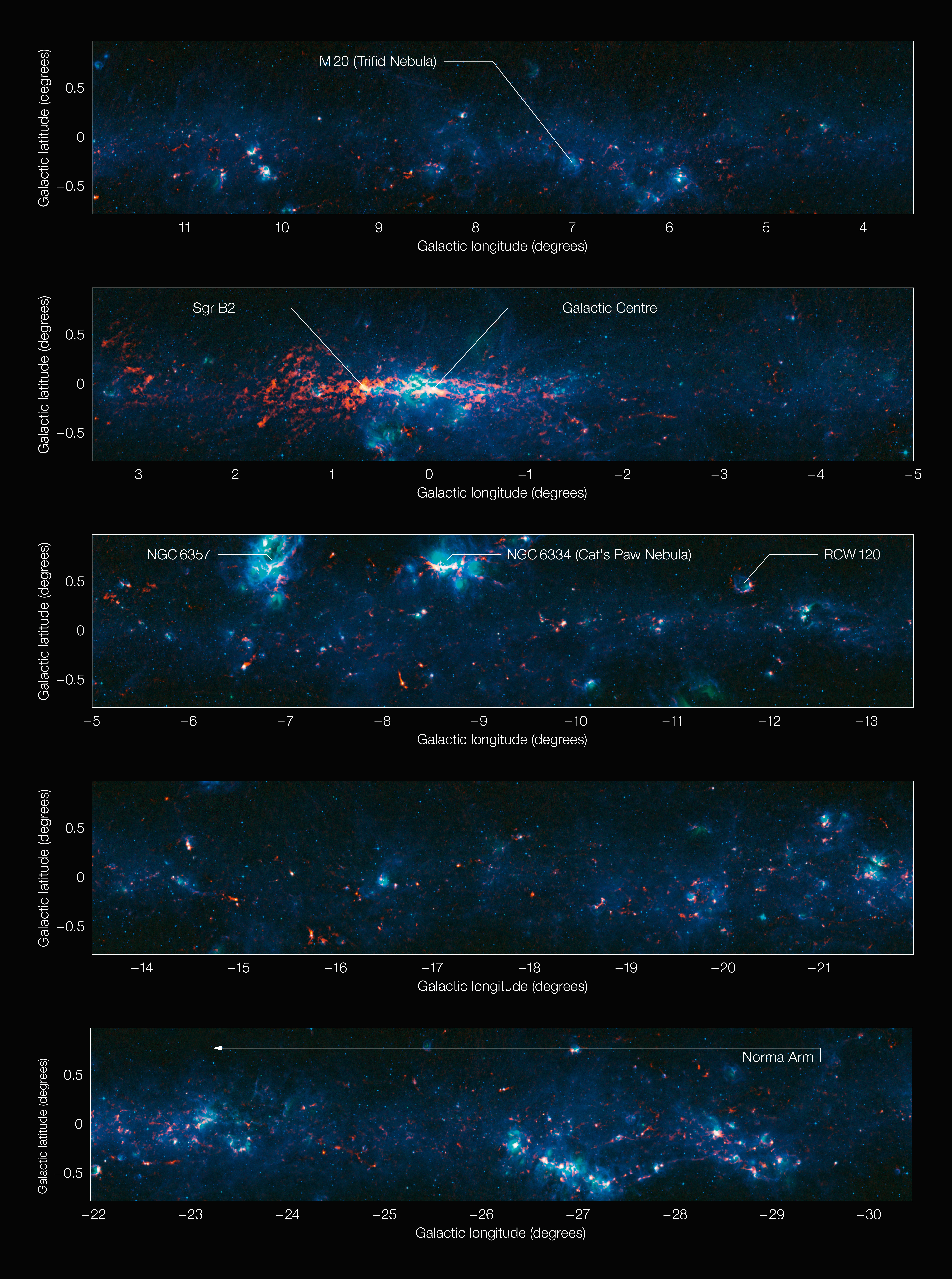 Colour-composite annotated image of part of the Galactic Plane seen by the ATLASGAL survey, divided into sections. In this image, the ATLASGAL submillimetre-wavelength data are shown in red, overlaid on a view of the region in infrared light, from the Midcourse Space Experiment (MSX) in green and blue. The total size of the image is approximately 42 degrees by 1.75 degrees. Some of the most prominent features visible in the image are (from left to right, top to bottom): Messier 20 (the Trifid Nebula): A nebula containing an open cluster of stars as well as a stellar nursery. The name “Trifid” refers to the way that dense dust appears to divide it into three lobes at visible wavelengths. Sagittarius B2 (Sgr B2): One of the largest clouds of molecular gas in the Milky Way, this dense region lies close to the Galactic Centre and is rich in many different interstellar molecules. Galactic Centre: The centre of the Milky Way, home to a supermassive black hole more than four million times the mass of our Sun. It is about 25 000 light-years from Earth. NGC 6357: A diffuse nebula containing the open cluster Pismis 24, home to several very massive stars. NGC 6334: An emission nebula also known as the “Cat’s Paw Nebula”. RCW 120: A region where an expanding bubble of ionised gas about ten light-years across is causing the surrounding material to collapse into dense clumps that are the birthplaces of new stars. The Norma Arm: The region of somewhat brighter emission extending over about 10 degrees on the right-hand side of the image corresponds to the position of the Norma Arm, one of the spiral arms of the Milky Way.